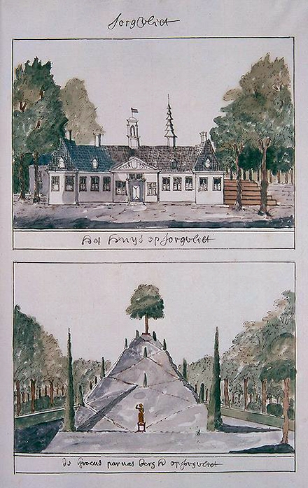 Sorghvliet, later known as the Catshuis, official residence of the prime minister of the Netherlands. Lower draw is the Parnassusberg, a hill in the garden.